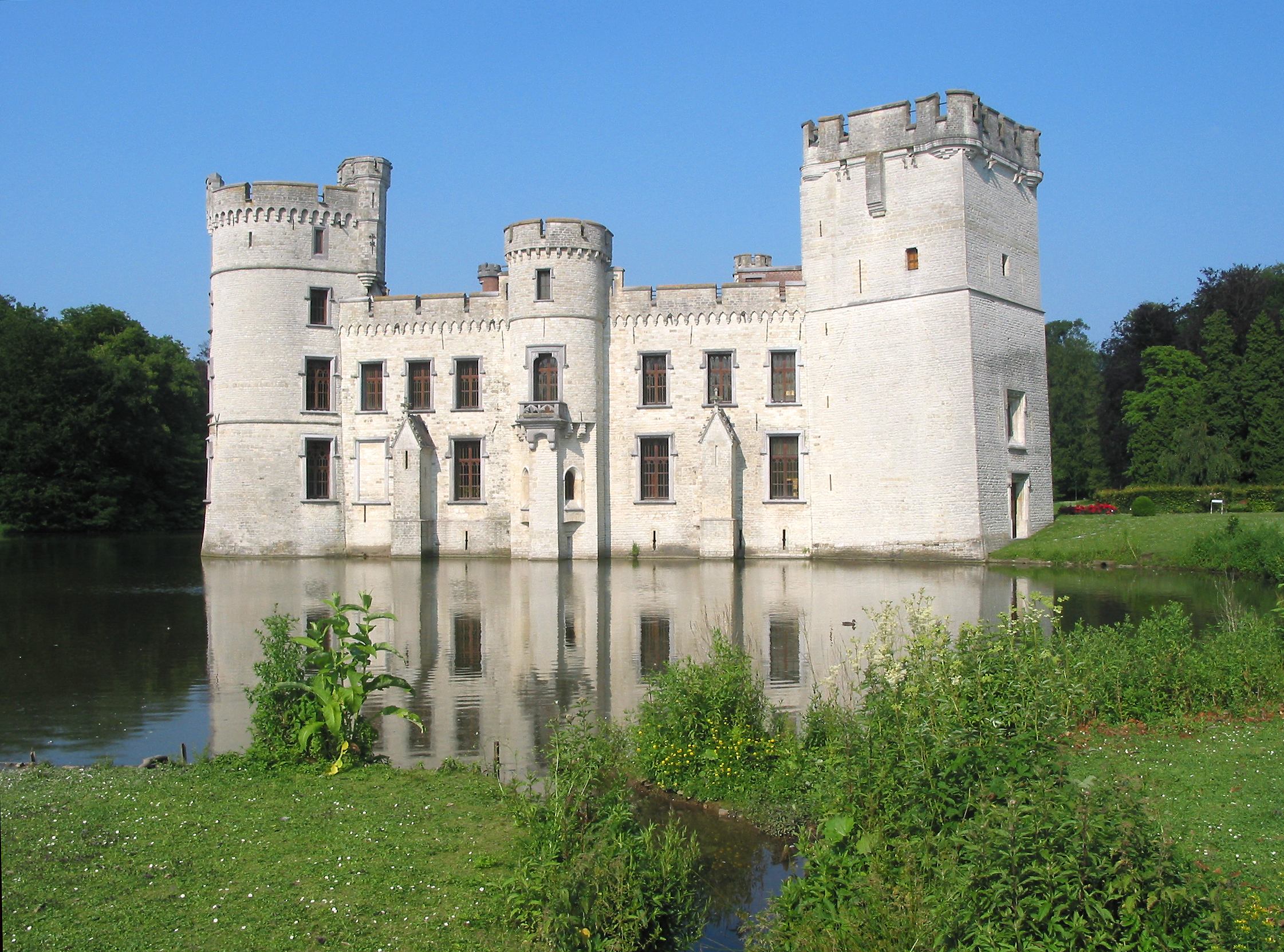 Meise (Belgium), the Bouchout castle (XII-XIXth century).